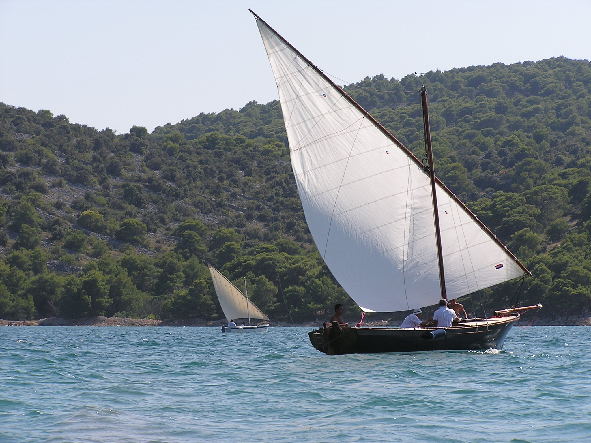 Sailing in the bay at Tisno.